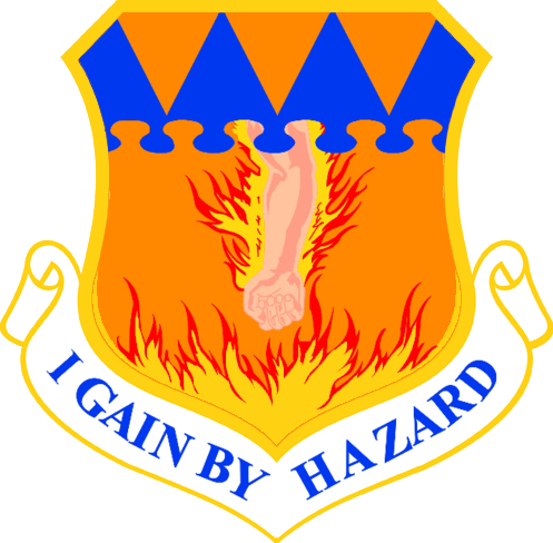 Emblem of the en:317th Airlift Group